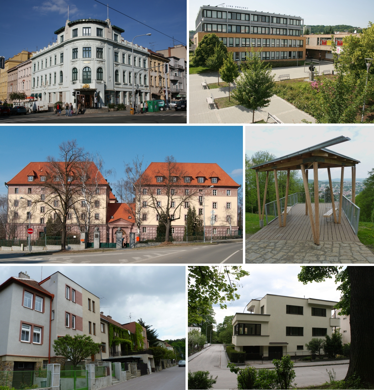 Secession house (anno 1908) in Brno-Žabovřesky, Czech Republic.